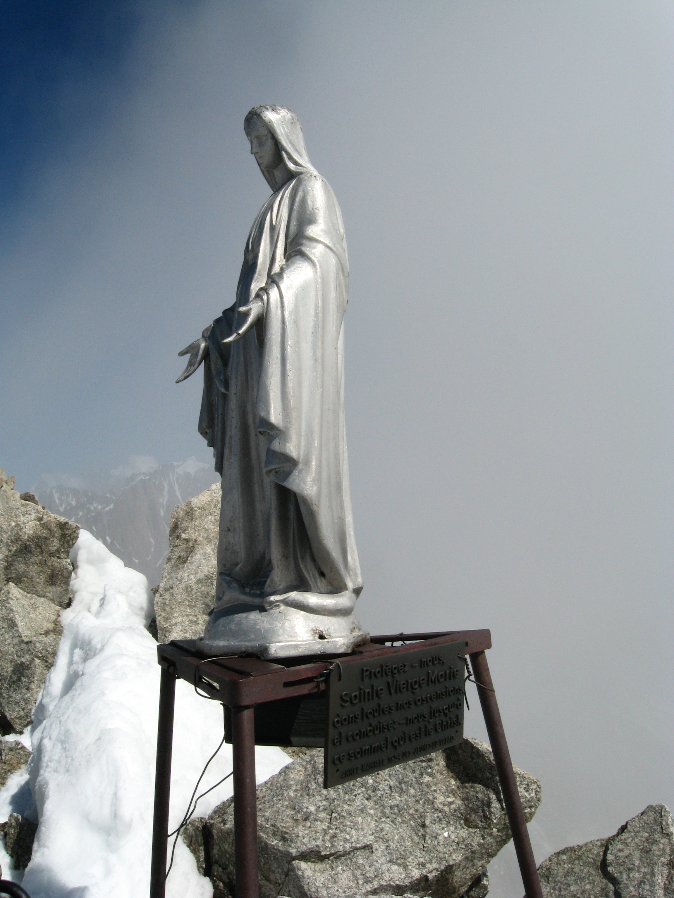 Summit figurine on Mont Dolent (3820m asl), Mont Blanc massif, on the boundary between France, Italy and Switzerland. Holes from lightning strikes can be seen in both the top and the base of the Madonna figurine. The wording of the plaque indicates it was erected in 1954 by "DES JEUNES DU VALAIS", i.e. the young people of Valais, Switzerland